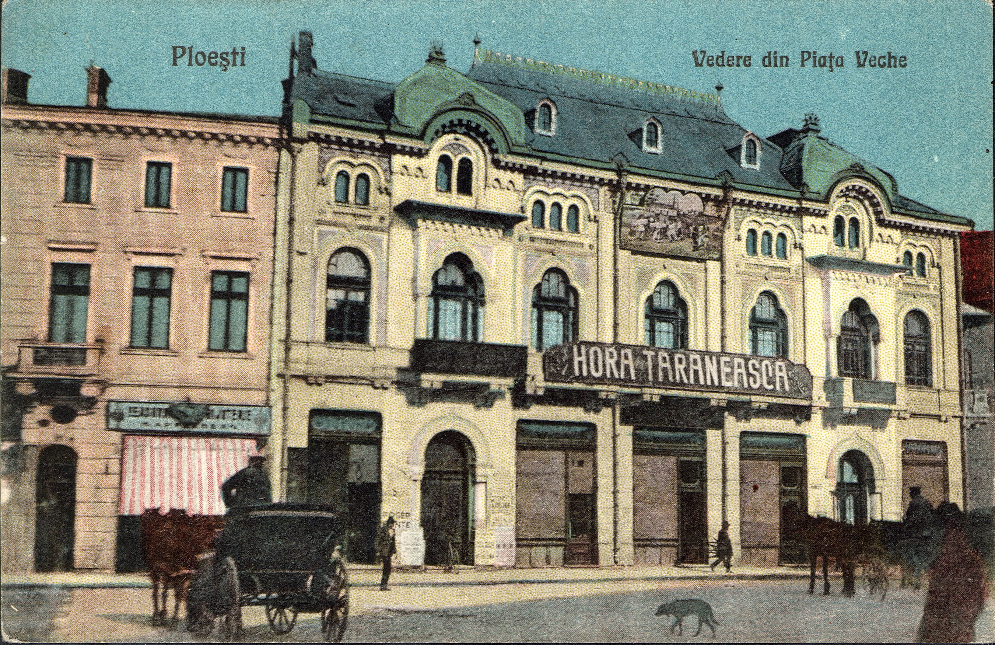 "Hora ţărănească" building, originally designed by architects Ion N. Socolescu and Toma T. Socolescu around 1910 for the merchant G. Gogălniceanu. Located on the former Piaţa Unirii in the city of Ploieşti, Romania. Victim of the Anglo-American 1943-44, it will be later demolished by the Communists.